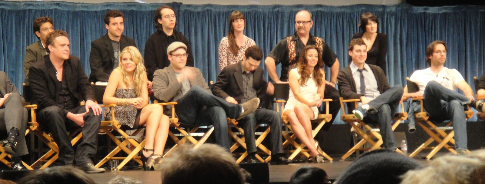 Freaks and Geeks Reunion. From left: Back row - Shaun Weiss (Sean), David Krumholtz (Barry Schweiber), Stephen Lea Sheppard (Harris Trinsky), Sarah Hagan (Millie Kentner), Steve Bannos (Frank Kowchevski), and Natasha Melnick (Cindy Sanders). Front row - Jason Segel (Nick Andopolis), Busy Philipps (Kim Kelly), Seth Rogen (Ken Miller), Samm Levine (Neal Schweiber), Linda Cardellini (Lindsay Weir), John Francis Daley (Sam Weir), and Martin Starr (Bill Haverchuck). photo © 2011 taken by Doug Kline